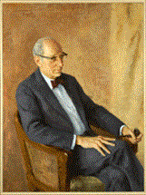 Edward Levi's U.S. Attorney General's portrait.